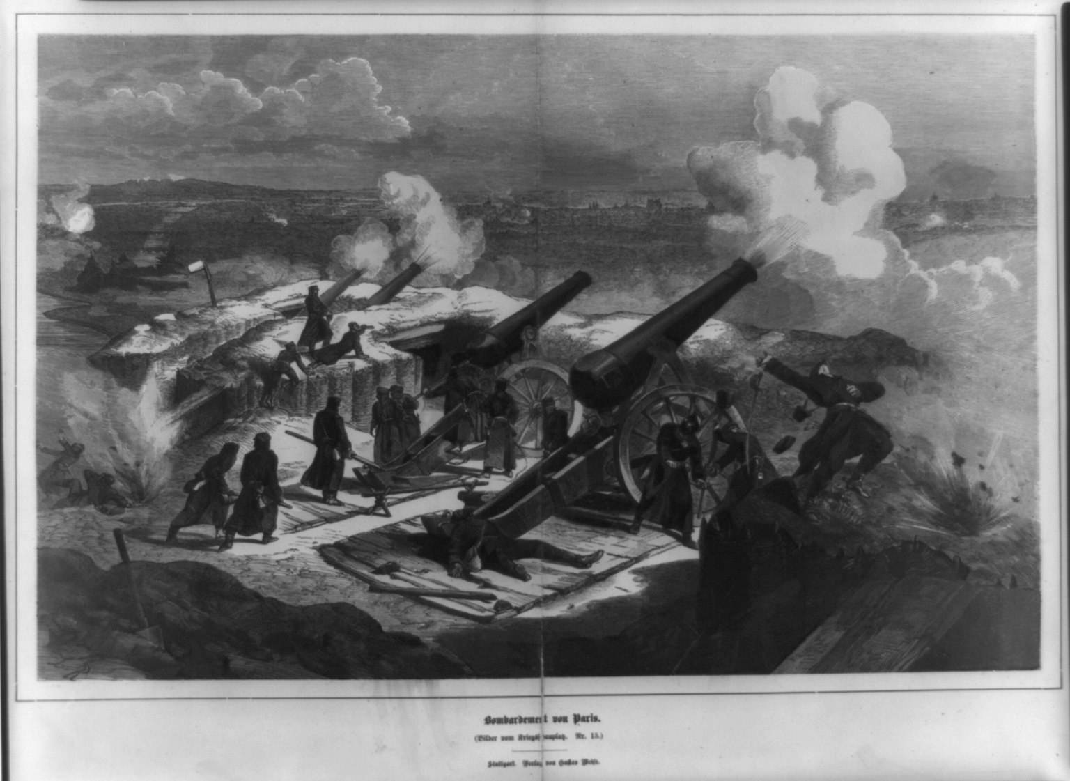 Title: Bombardment von Paris / L.R. Abstract/medium: 1 print : wood engraving, hand-colored ; 30.5 x 44.6 (image), 45.7 x 61 (sheet)